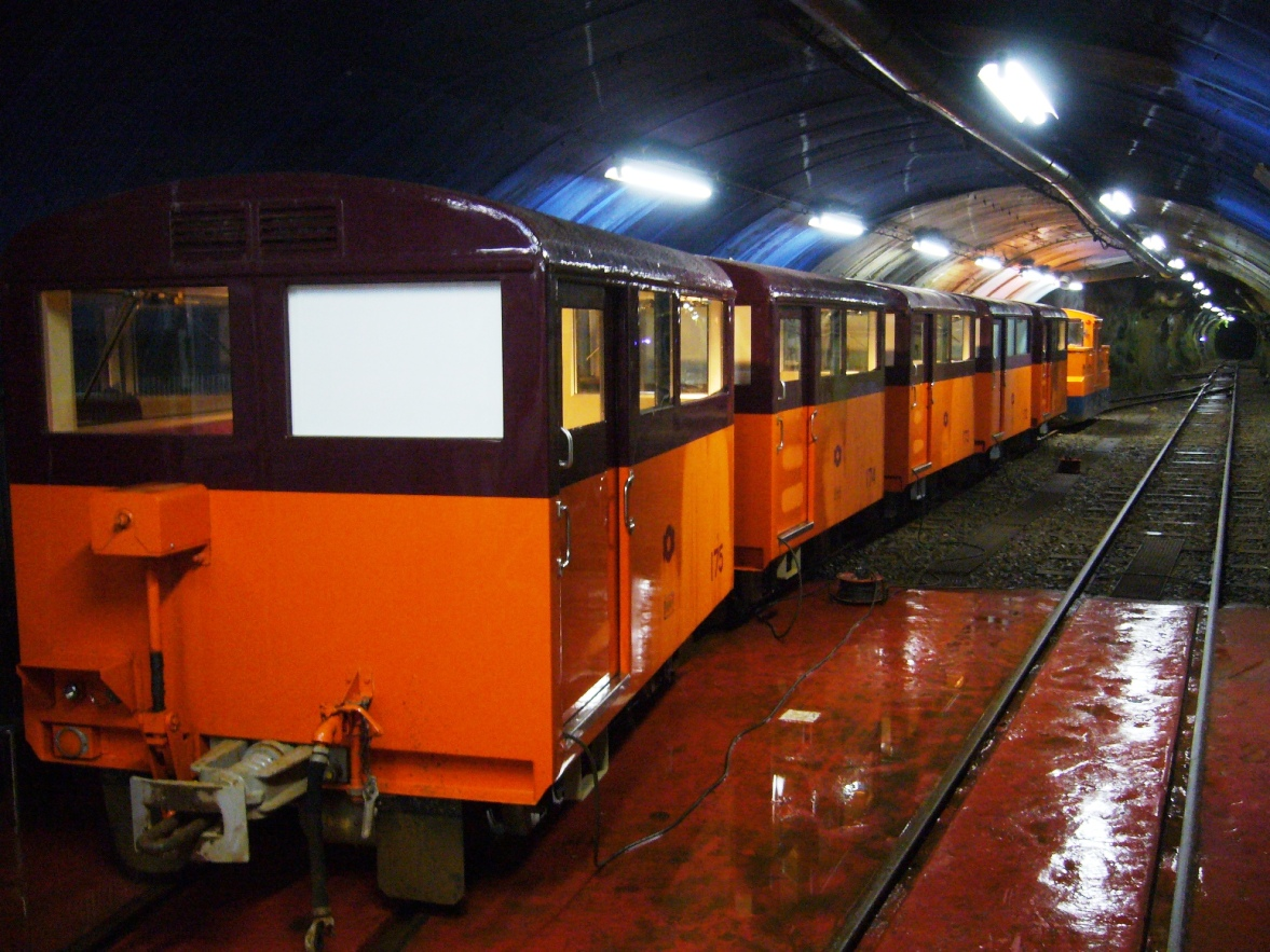 Kurobe Senyo Railway (Jobu Track) train at Keyakidaira-Jobu Station, Kurobe, Japan.